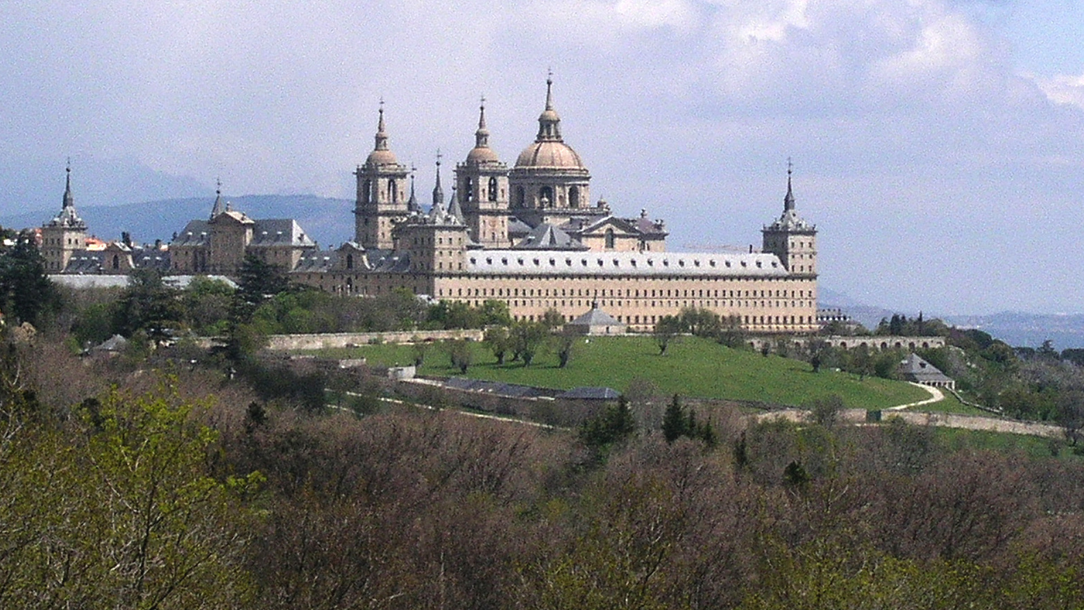 Monastery San Lorenzo de El Escorial, Madrid, Spain. Distant view.